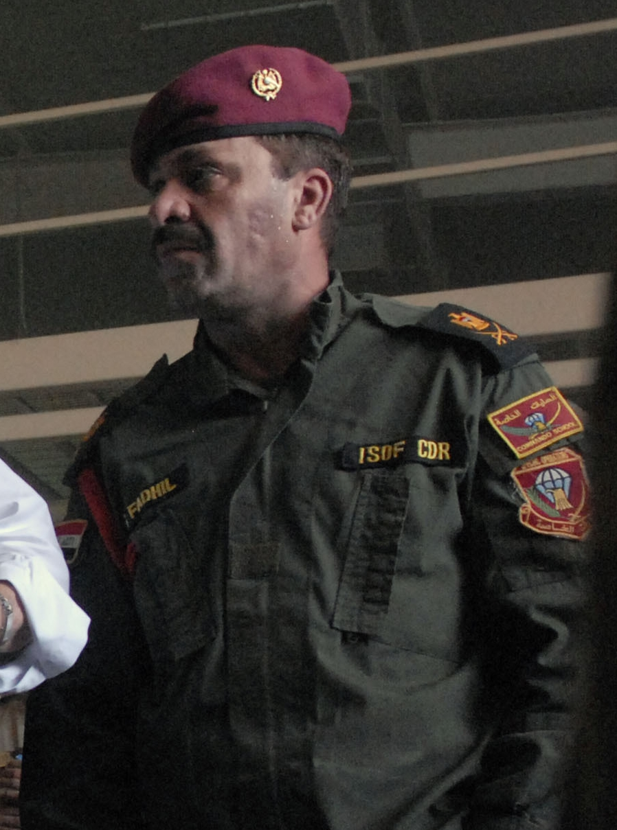 Standing beside Maj. Gen. Fadhel Al-Barwari (right), the commanding officer of the Iraqi Special Operations Force's 1st Brigade, U.S. Rep. Patrick Murphy (center) speaks to ISOF soldiers after a capability demonstration in Baghdad Aug. 8. The representative for the 8th district in Pennsylvania is also the first Iraq war veteran elected to Congress.